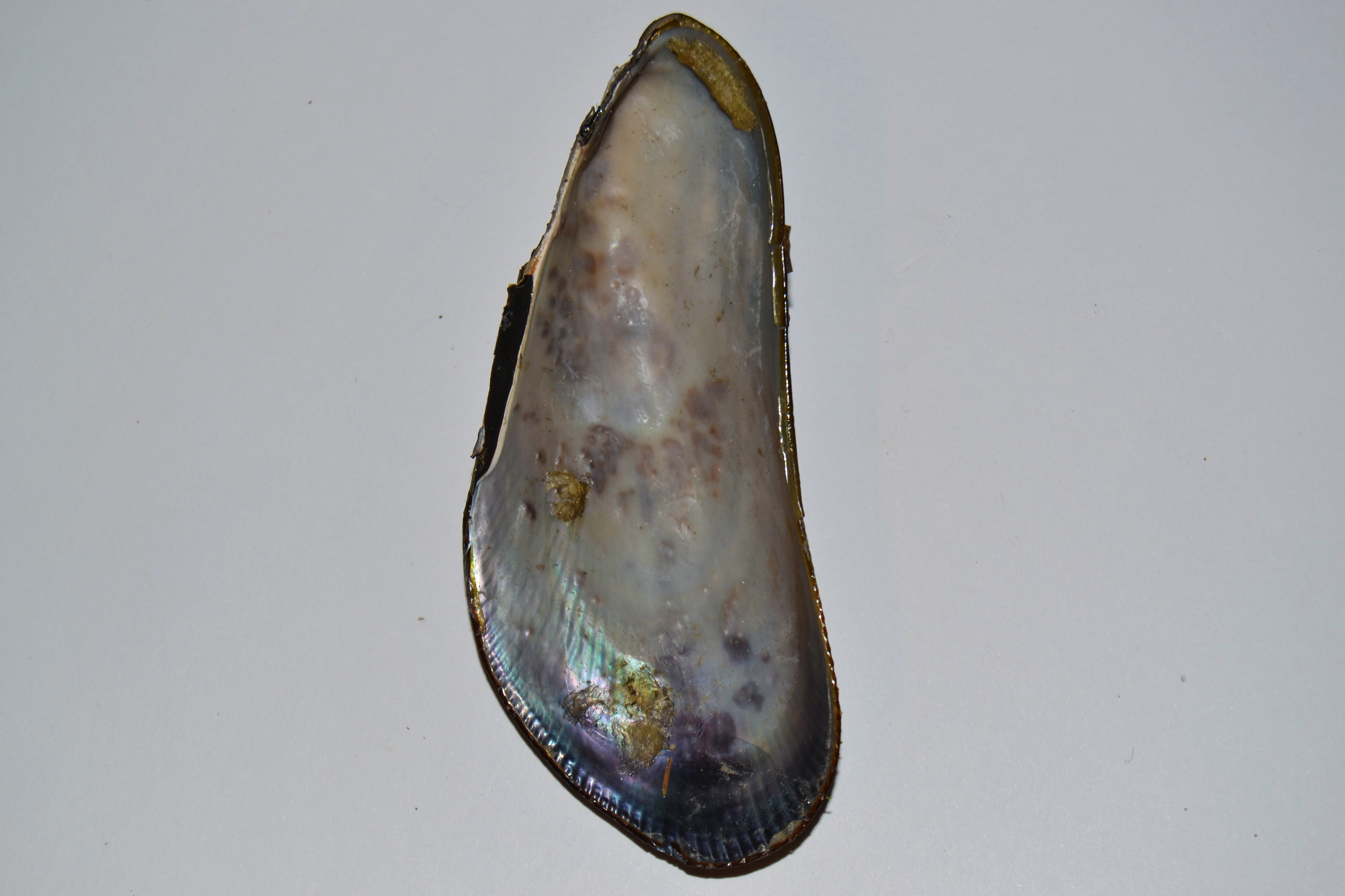 Hammonasset State Park, Madison, Connecticut